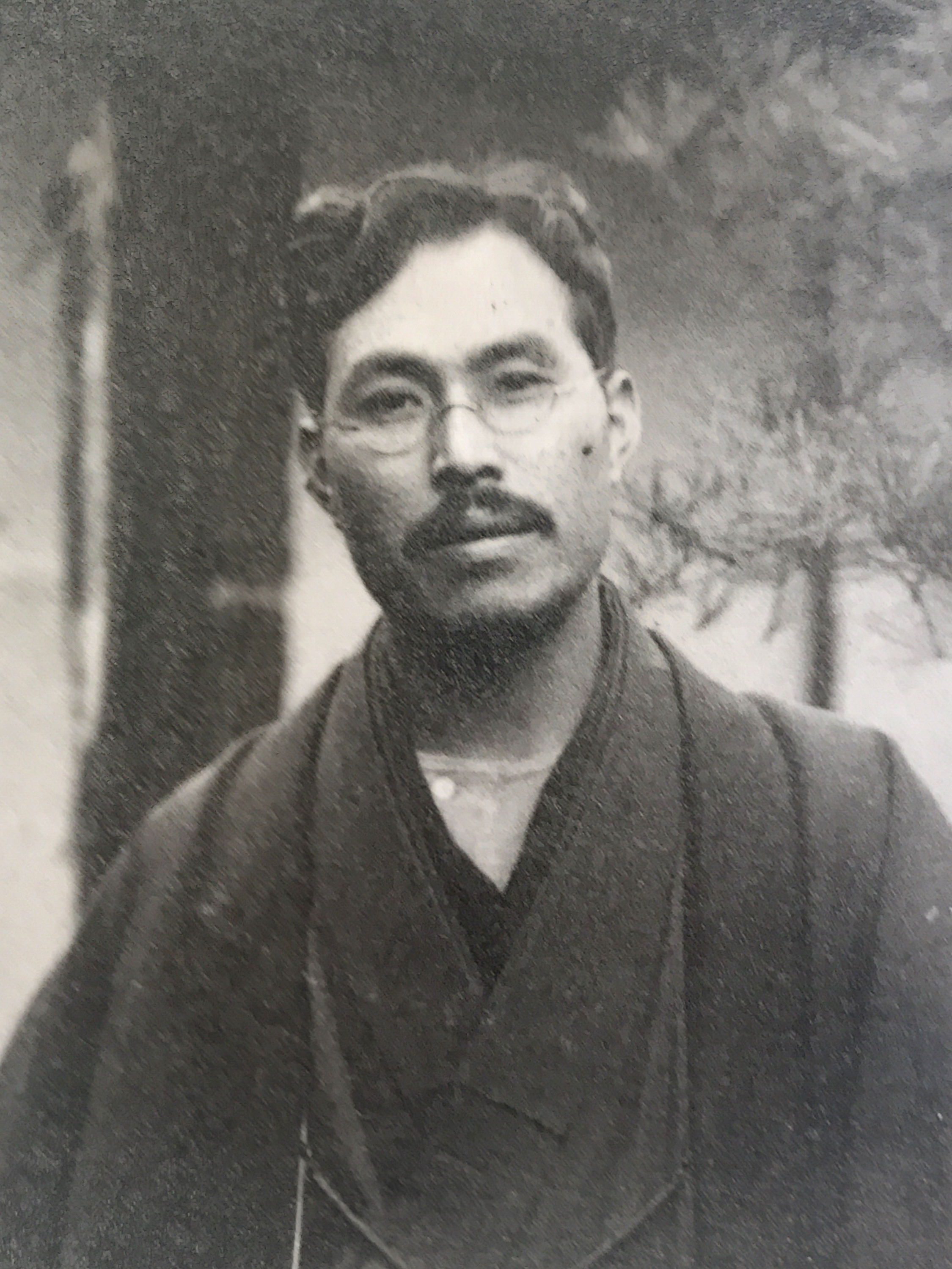 Portrait of Otake Chikuha, ca. 1915. This is an cutout from an image containing his two brothers, Etsudo and Kokkan.